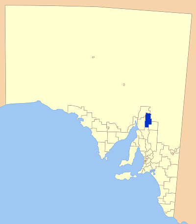 Map of South Australia showing the location of the Orroroo Carrieton Local Government Area. A modification of GDFL map by Astrokey44; found here: File:SA_LGA_blank.png